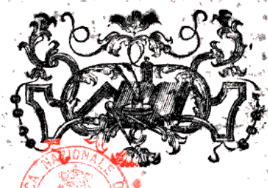 Drawing taken from Giuseppe Carlucci's book "Ragionamento filosofico sopra il moto della Terra" (1766)